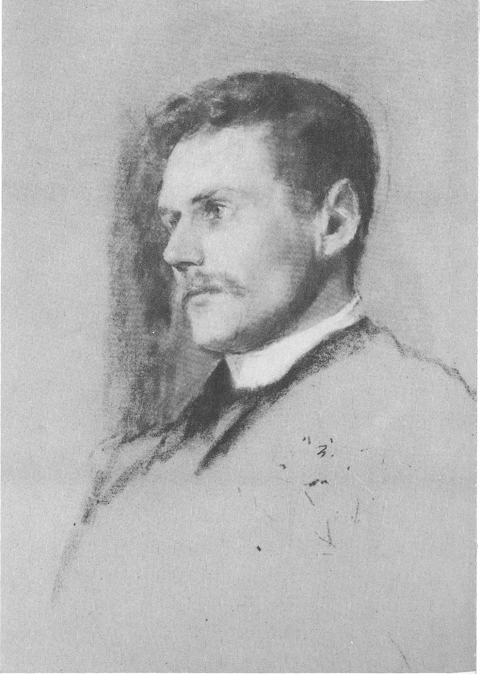 Sketch of Sam Hill in his early 30s.